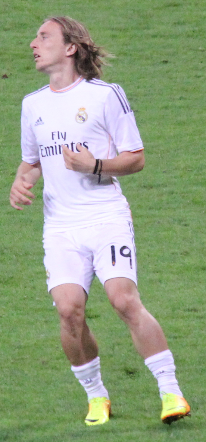 Modric for Real Madrid in 2013.